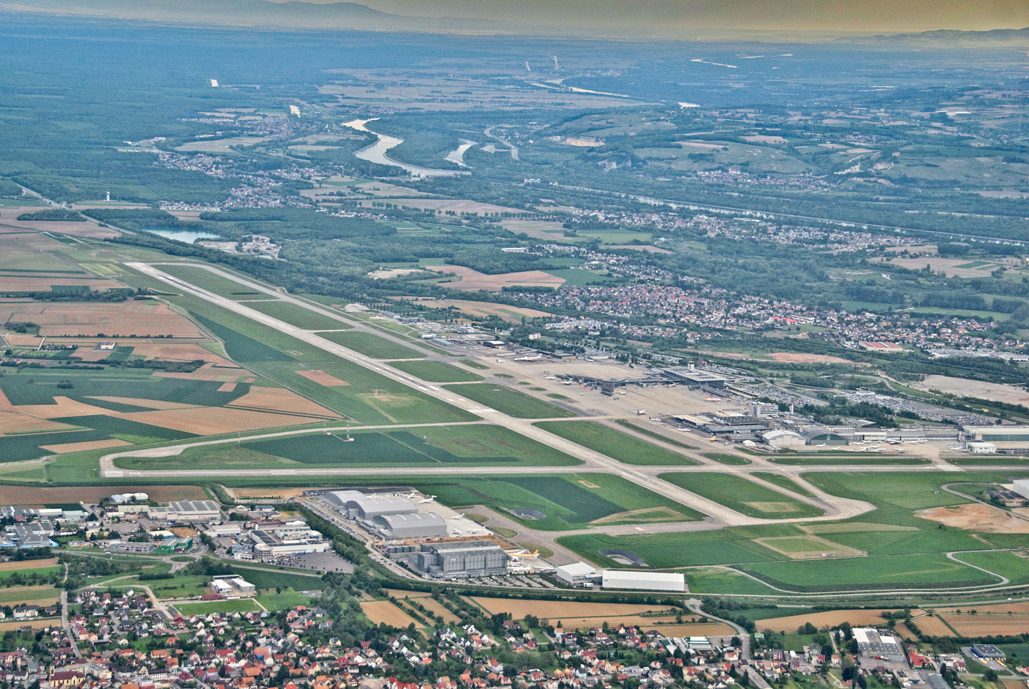 Shortly after take off of flight BD160, BSL - LHR, May 18, 2012